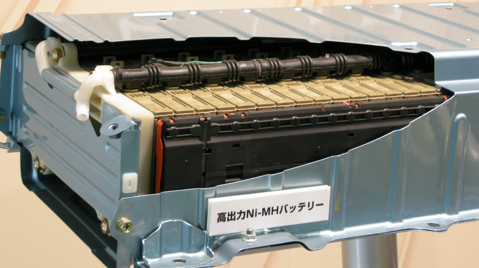 High power Ni-MH Battery of Toyota NHW20 Prius